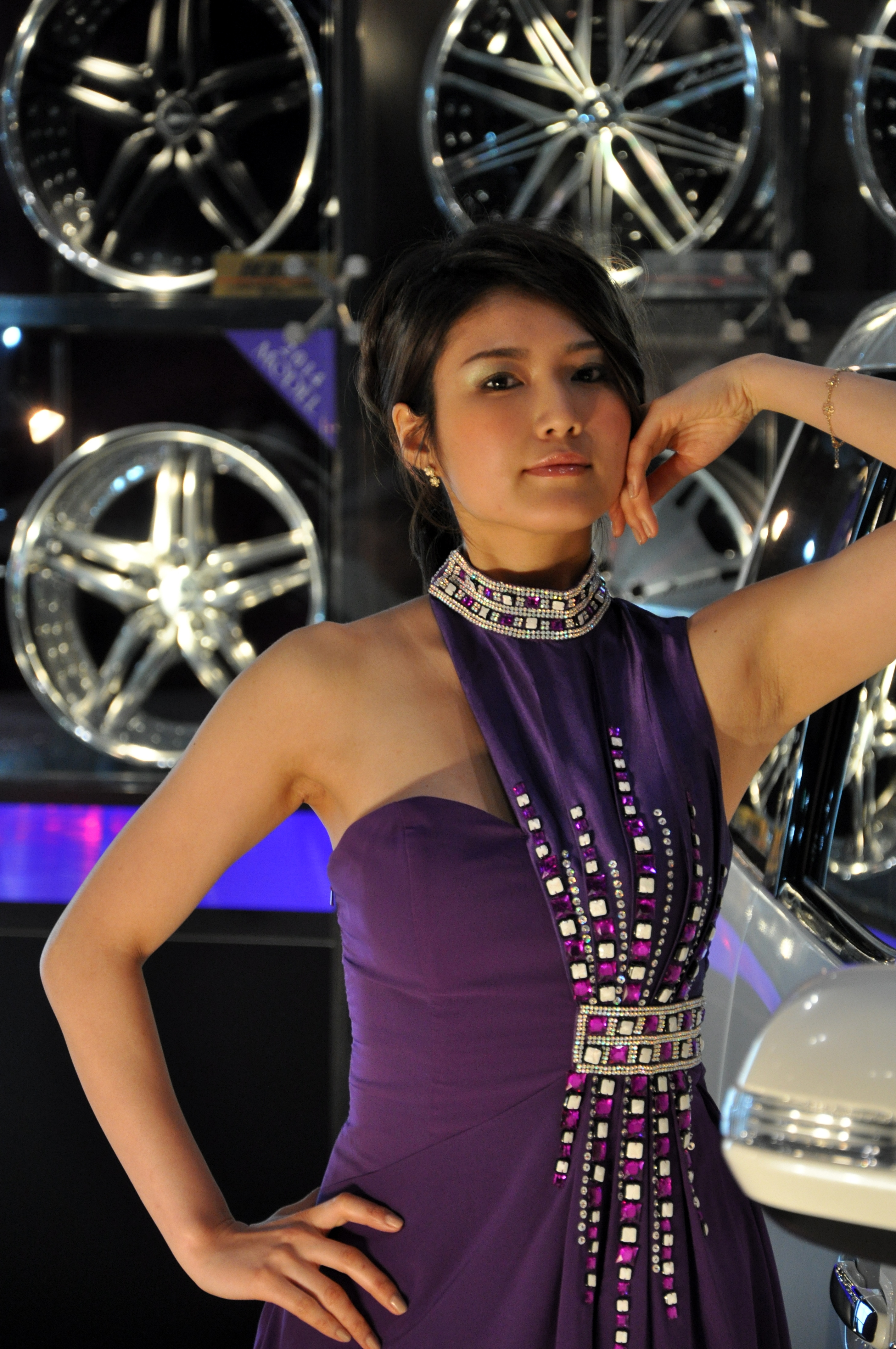 TOKYO AUTO SALON 2014 with NAPAC_013